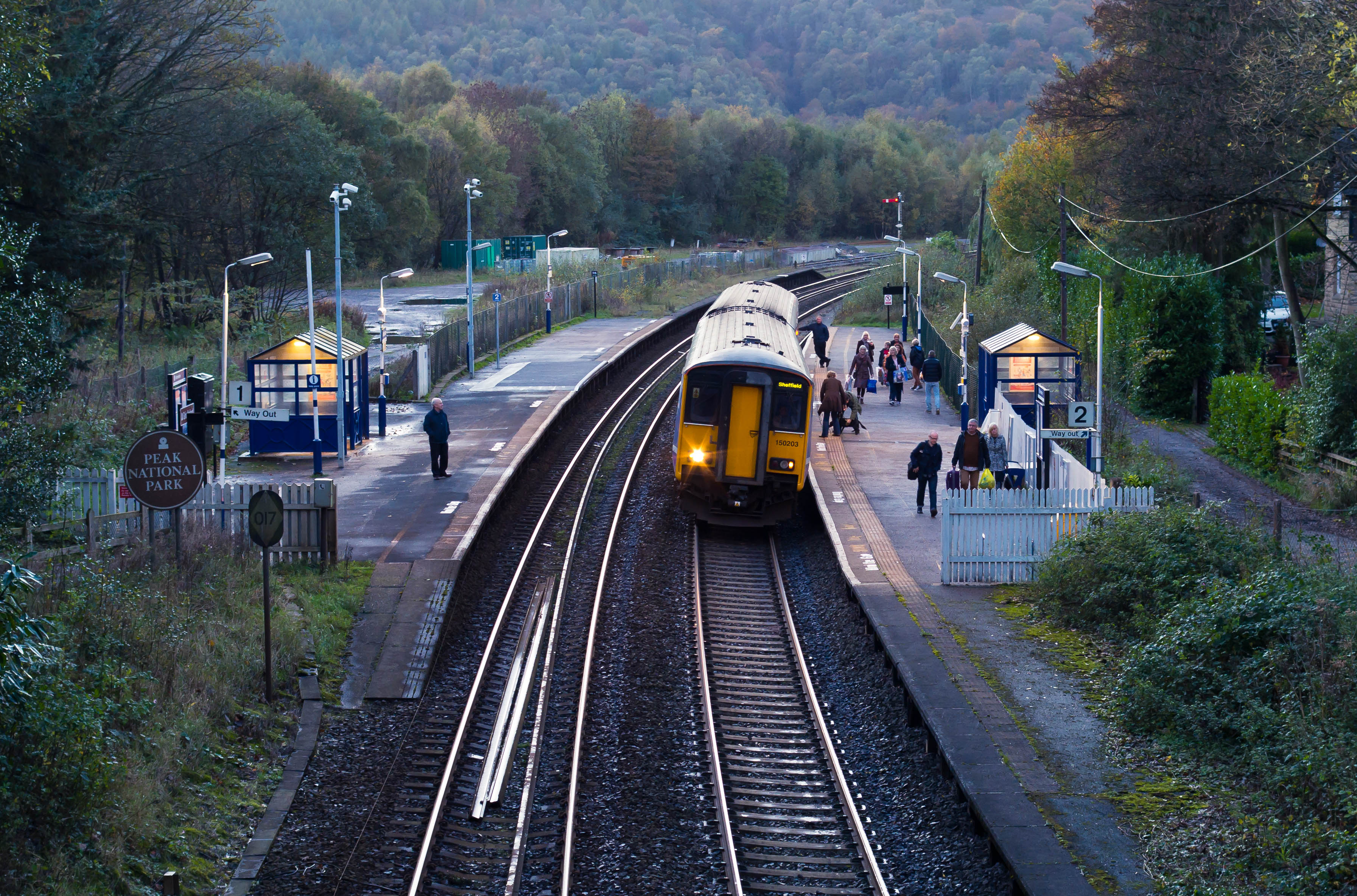 A Sheffield-bound British Rail Class 150 Sprinter stopped at Grindleford railway station